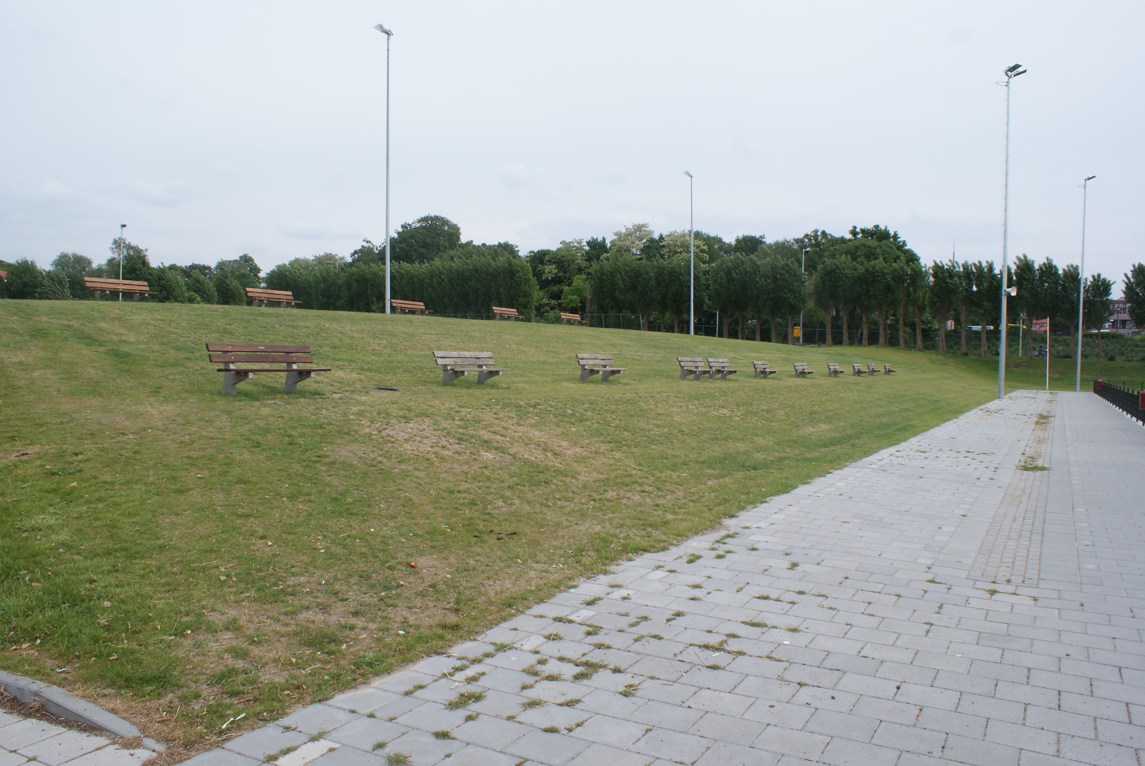 Stadion North tribune De Dennen Quick 1888